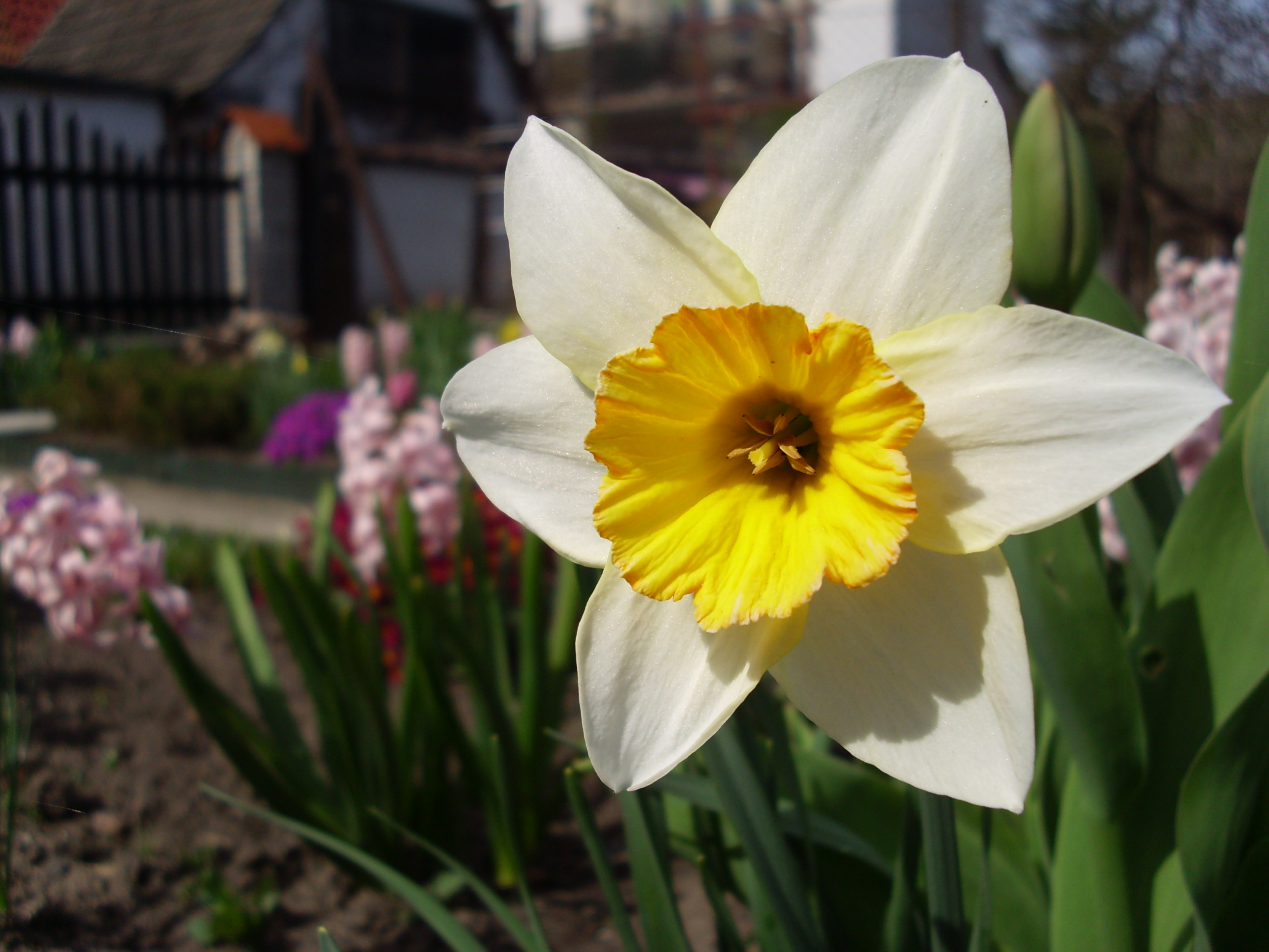 The Yellow Narcissus